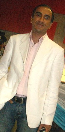 Indian director Milan Luthria